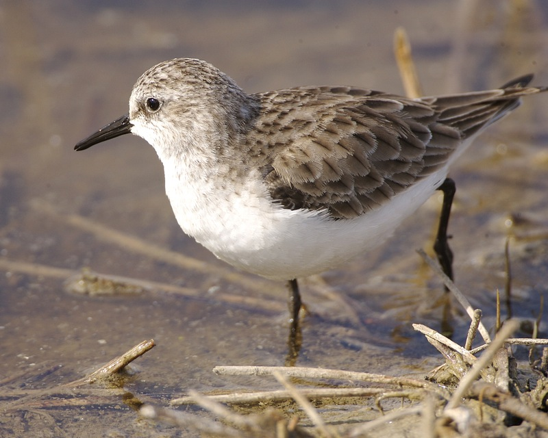 Little Stint (Calidris minuta), adult, winter El Fayoum, Egypt 5th. January 2008